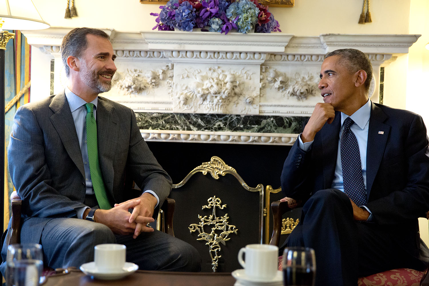 President Barack Obama meets with King Felipe VI of Spain at the Waldorf Astoria Hotel in New York, N.Y., Sept. 23, 2014. (Official White House Photo by Pete Souza)